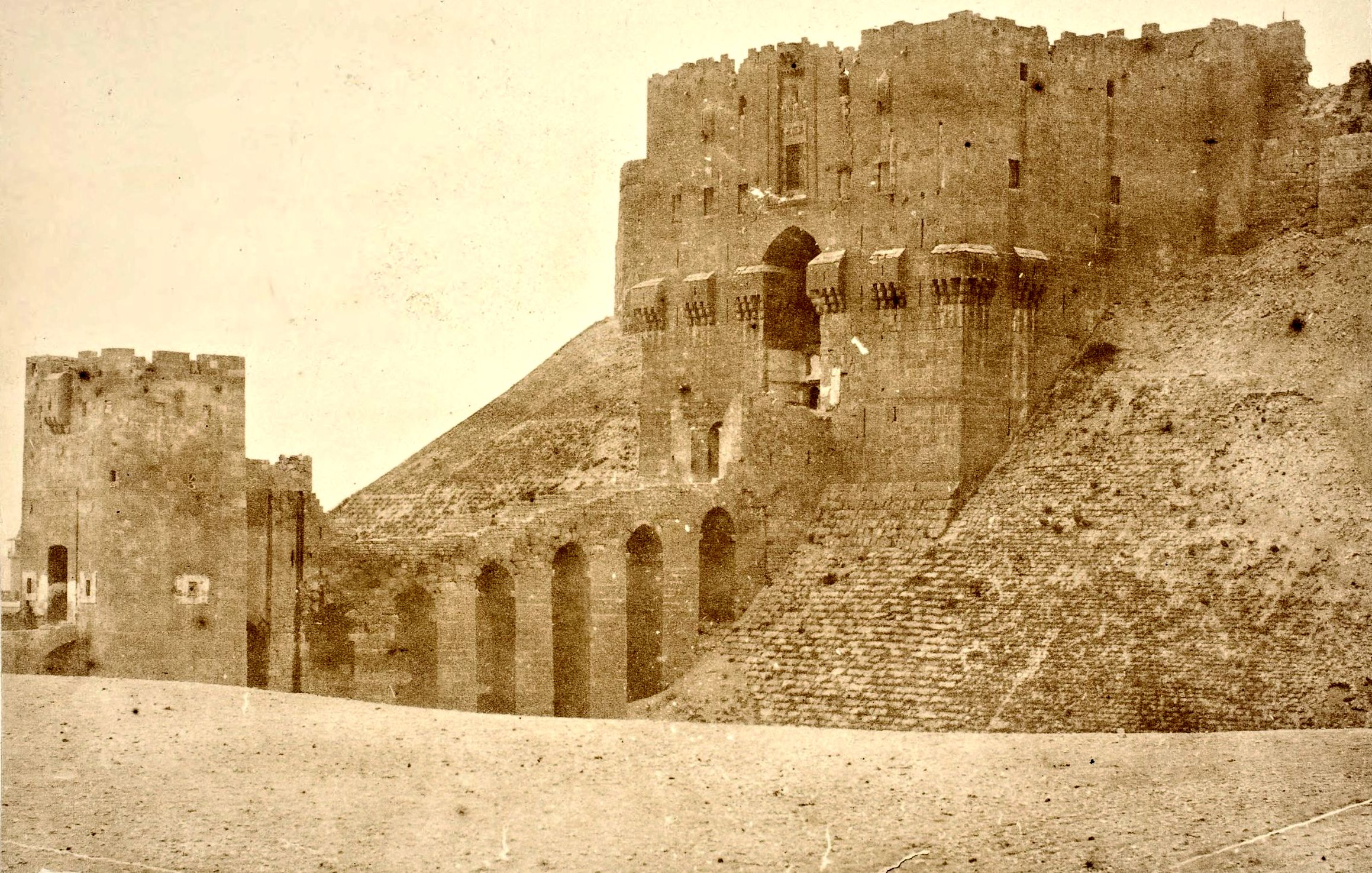 Gate of castle of Aleppo. from: Robert G. Ousterhout: John Henry Haynes - A Photographer and Archaeologist in the Ottoman Empire 1881–1900 S. 89 ISBN 978-605-62429-0-8